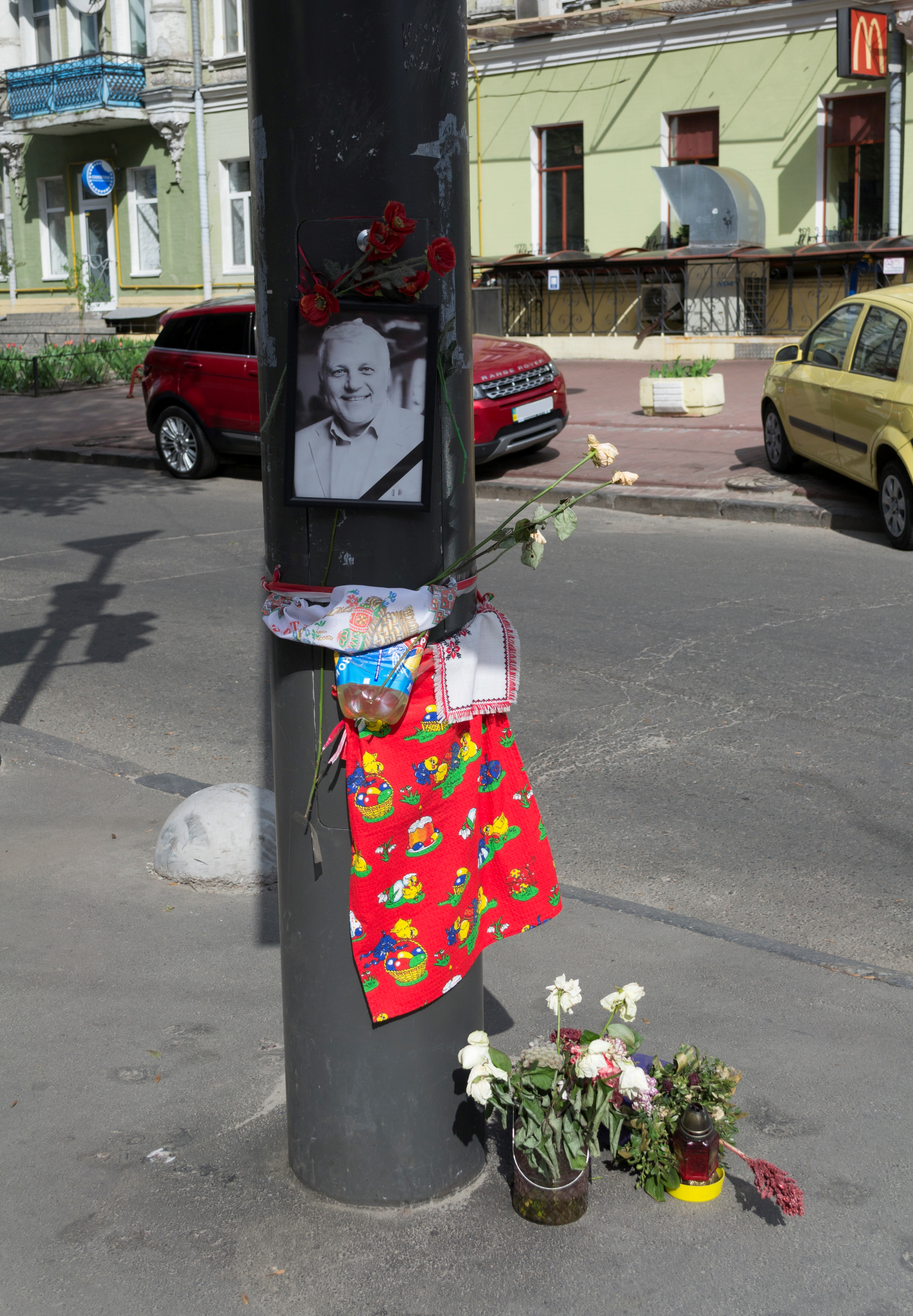 The place of death of journalist Pavlo (Pavel) Sheremet at the corner of Bohdan Khmelnytskyi and Ivan Franko Streets in Kyiv. A car Pavlo Sheremet drove was blown up in the late morning on the 20th of July 2016. This crime remains unsolved.